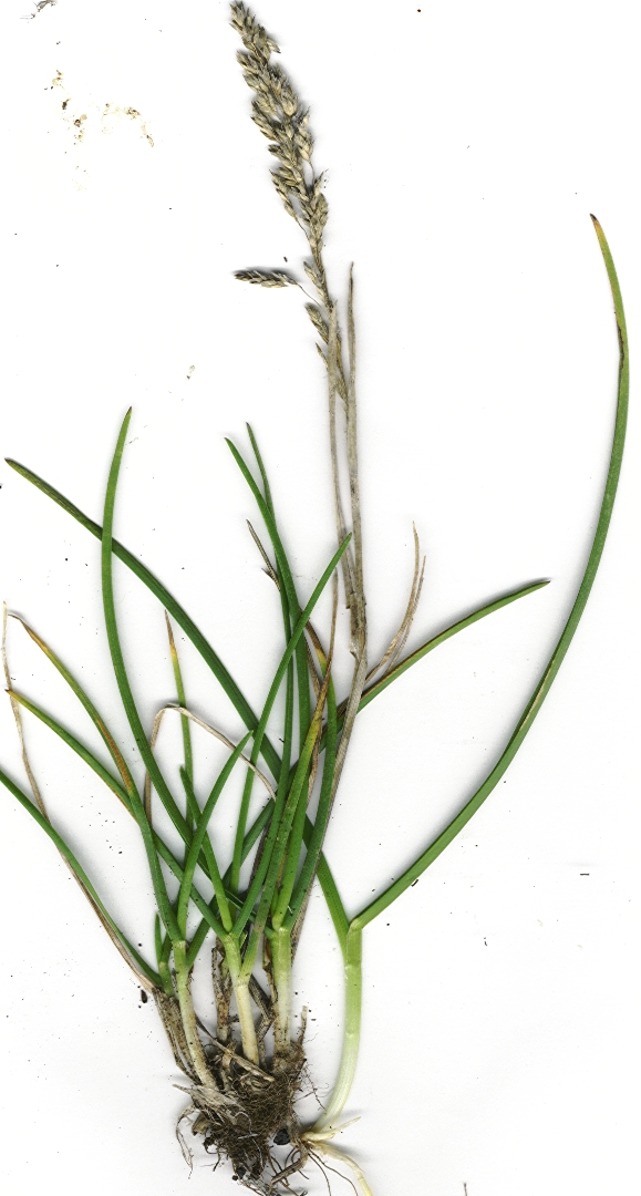 Poa pratensis (plant). Location: Maui, Kalahaku Haleakala National Park